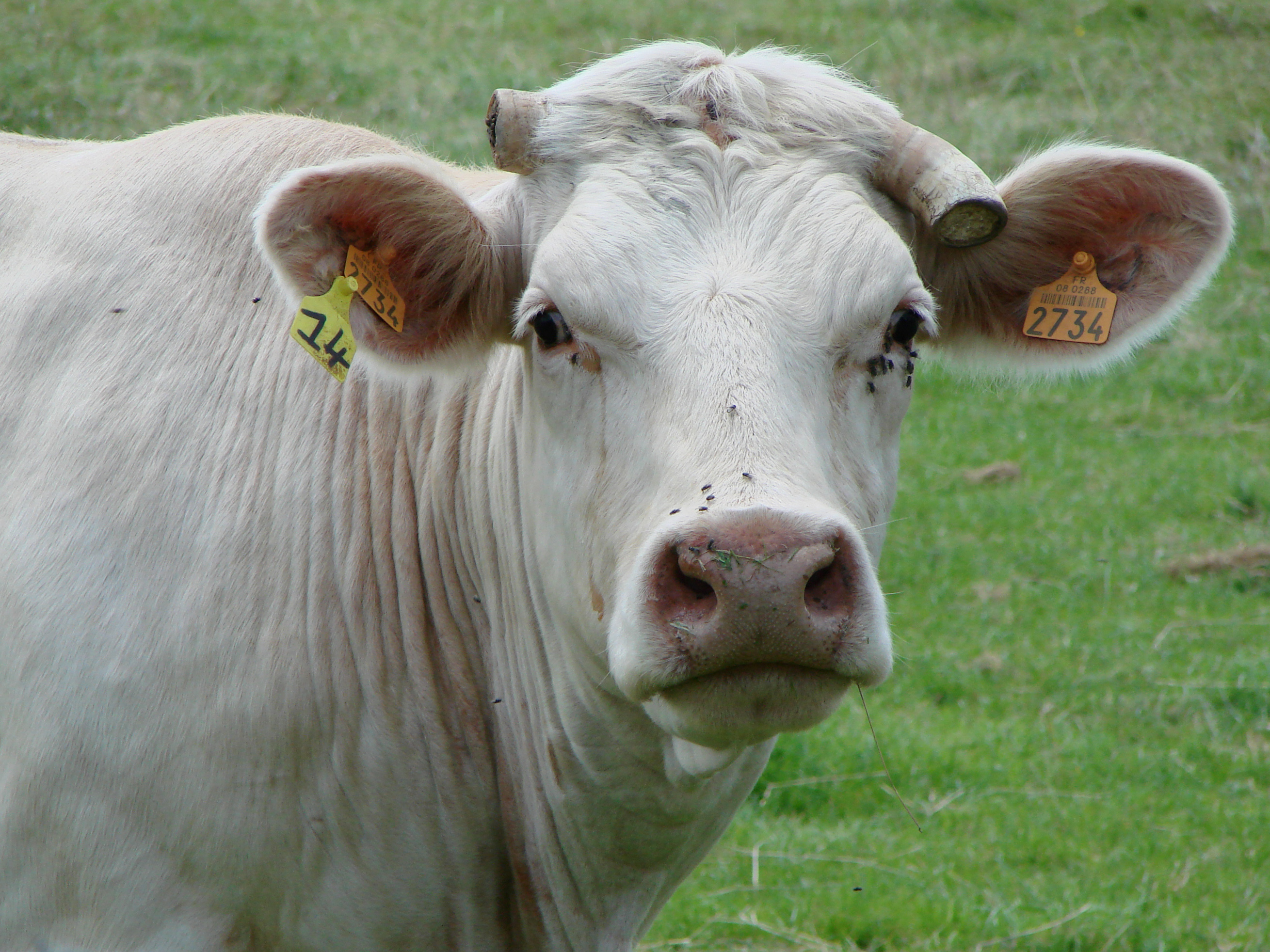 Cow (Charolais breed) with cut horns. Ardennes(08), France.